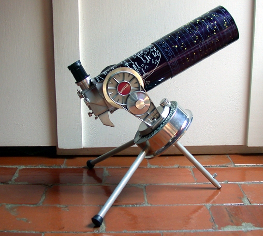 Questar Telescope 3.5 with dewcap extended.